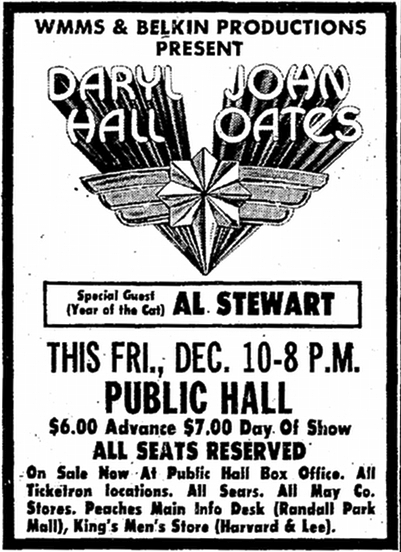 Print ad for Hall & Oates concert